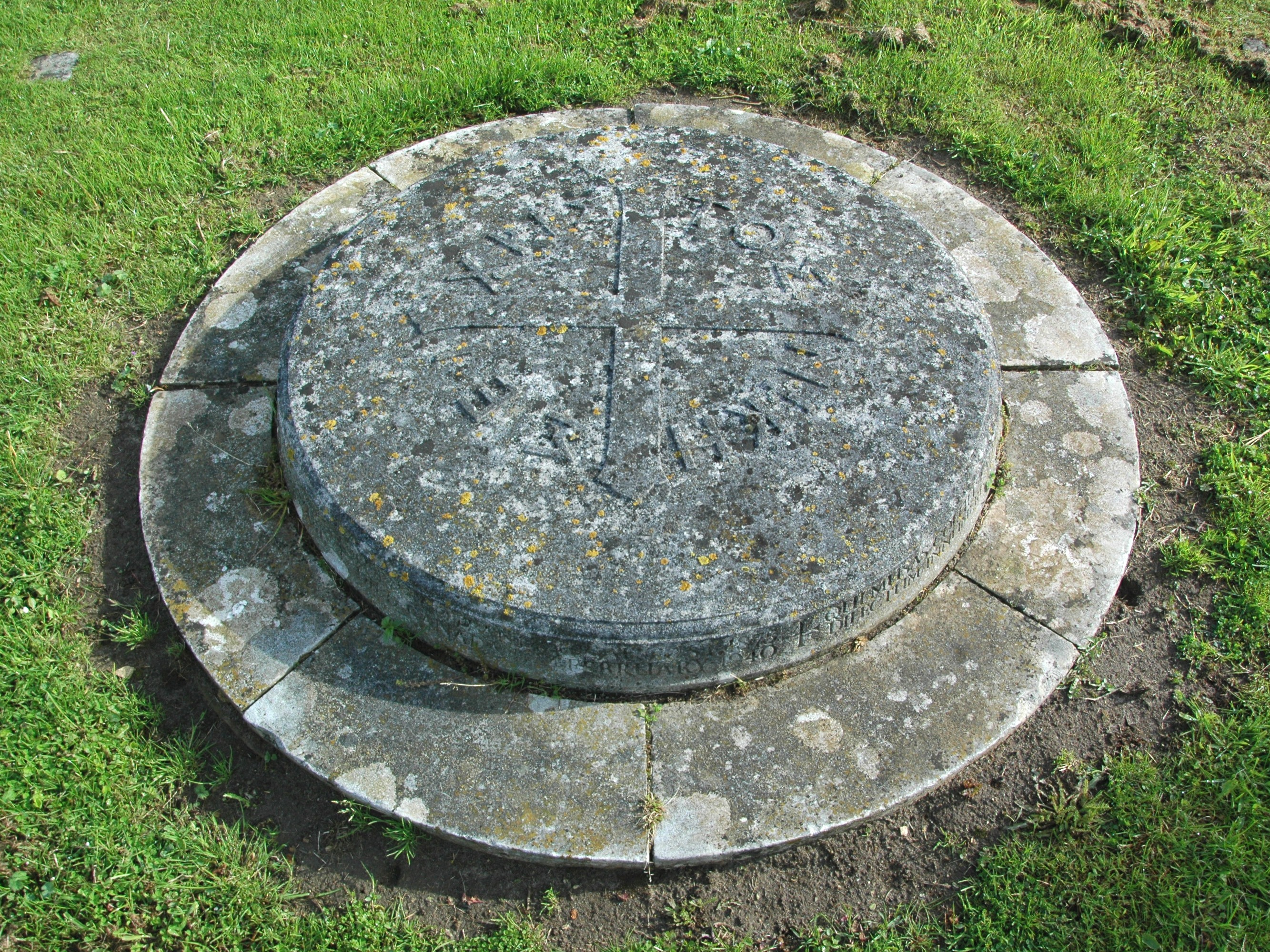 St Thomas of Canterbury parish church, Elsfield, Oxfordshire: grave of John Buchan